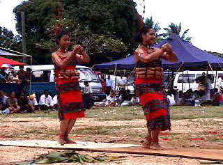 Clap with the hands, the start of a Tongan ula dance